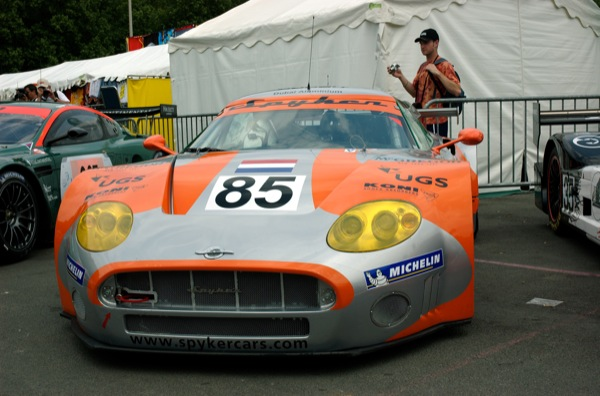 Pictures from the 24 Hours of Le Mans 2006 Scruteneering Session - #85 Spyker C8 Spyder GT2R